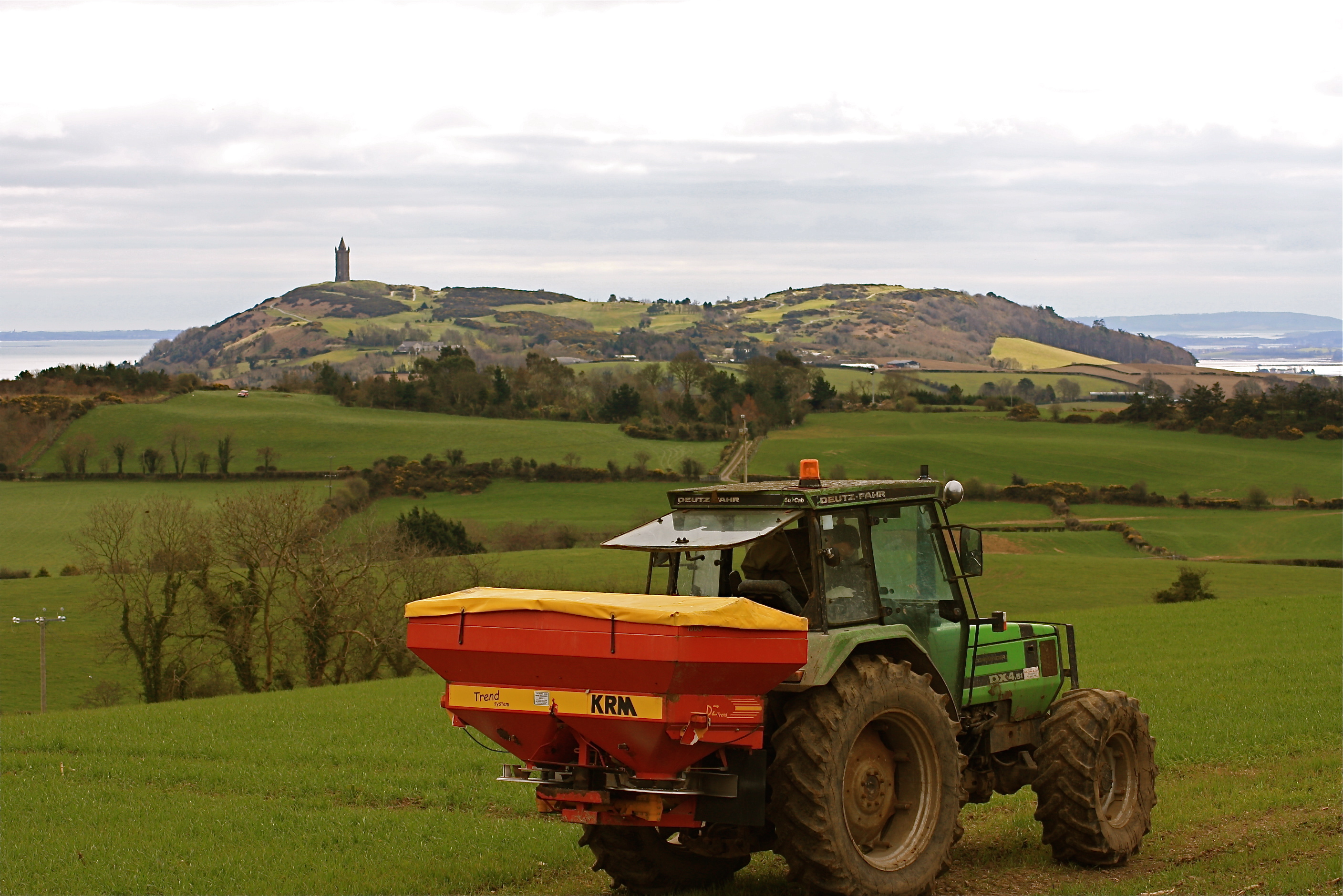 Farming in Co Down. N.Ireland.